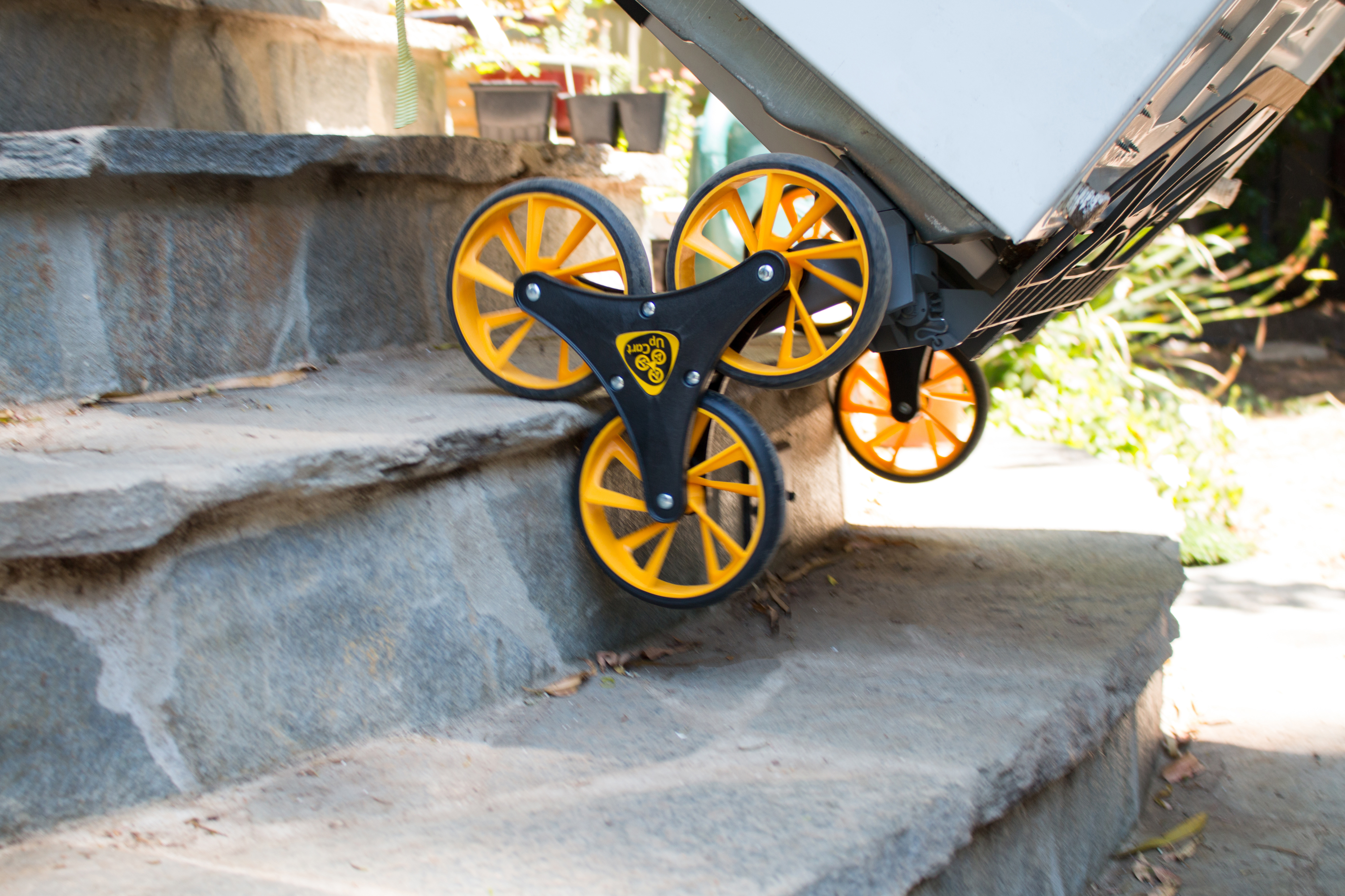 Example of Stair Climber Wheels (UpCart)